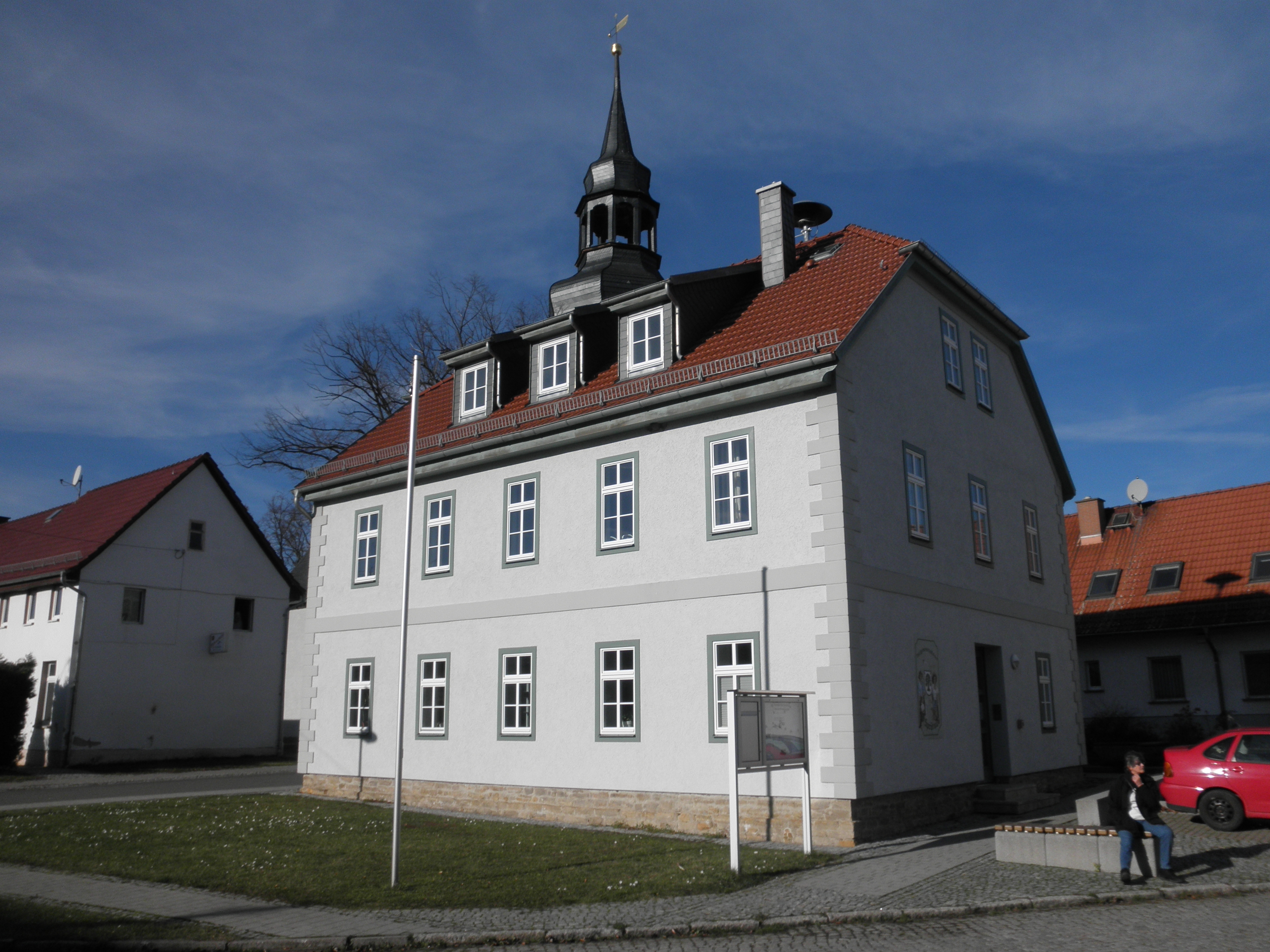 House of the community in Sprötau in Thuringia